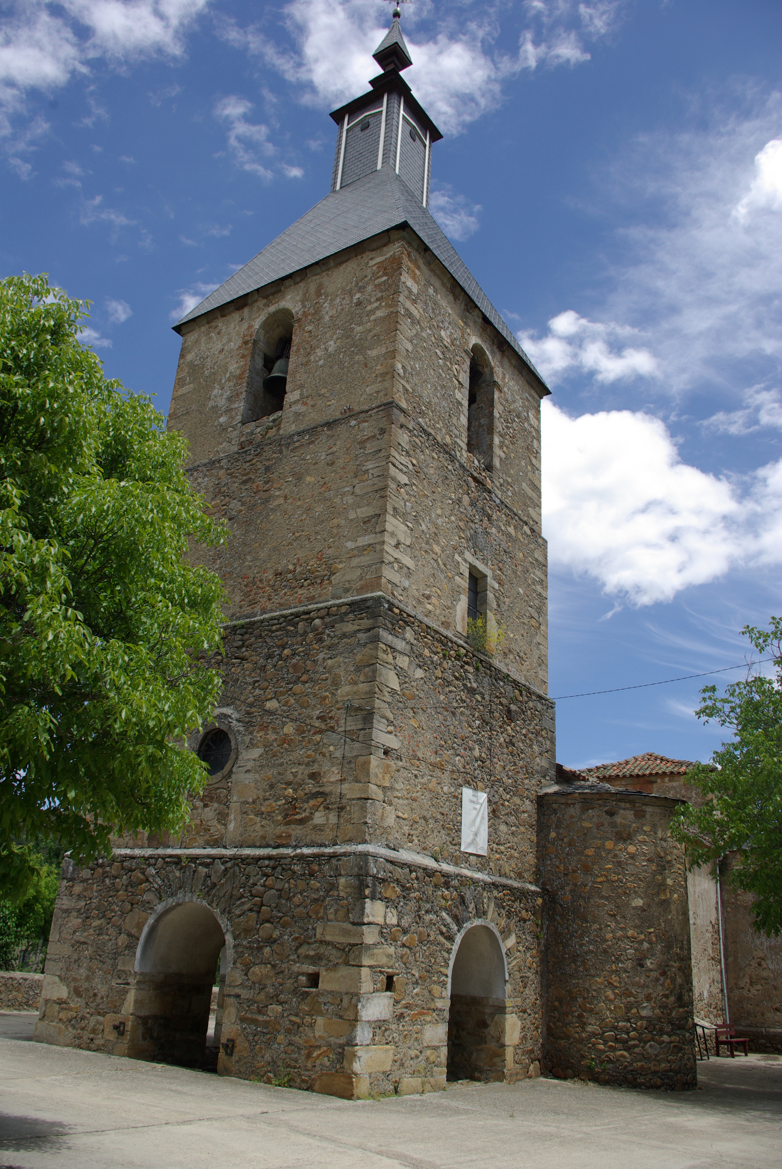 Sanctuary of La Garandilla (Valdesamario León, Spain).